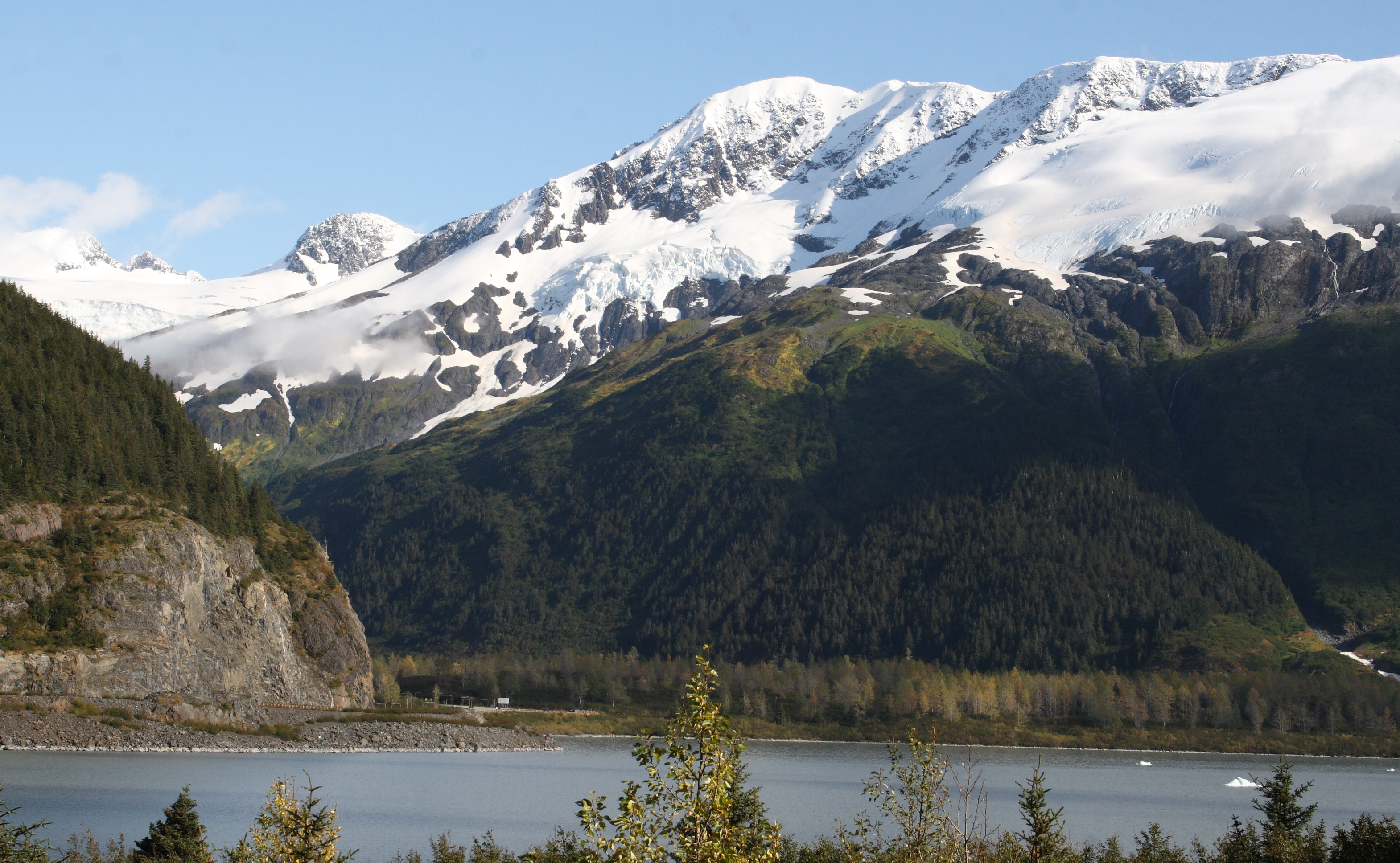 The Portage Valley, as seen from the Trail of Blue Ice.